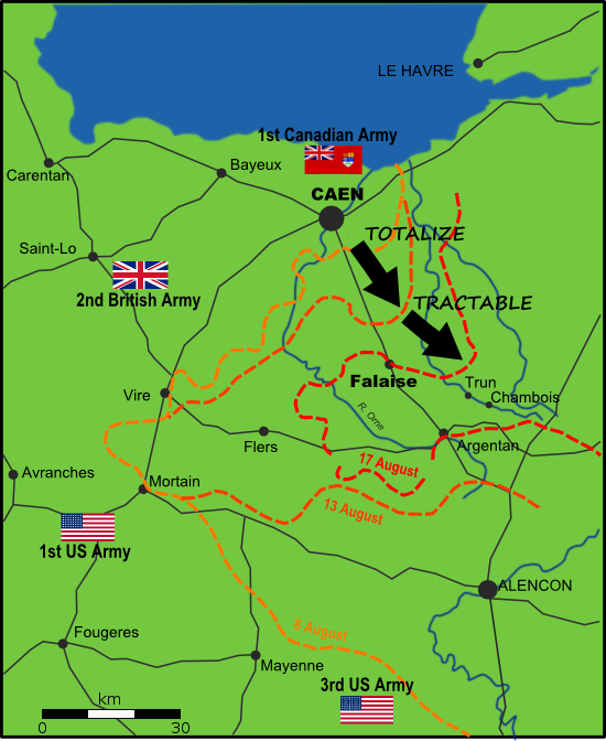 Map of Allied and German positions around Falaise, Normandy from 8-17 August 1944, illustrating the Canadian offensives of Operation Totalize and Operation Tractable.